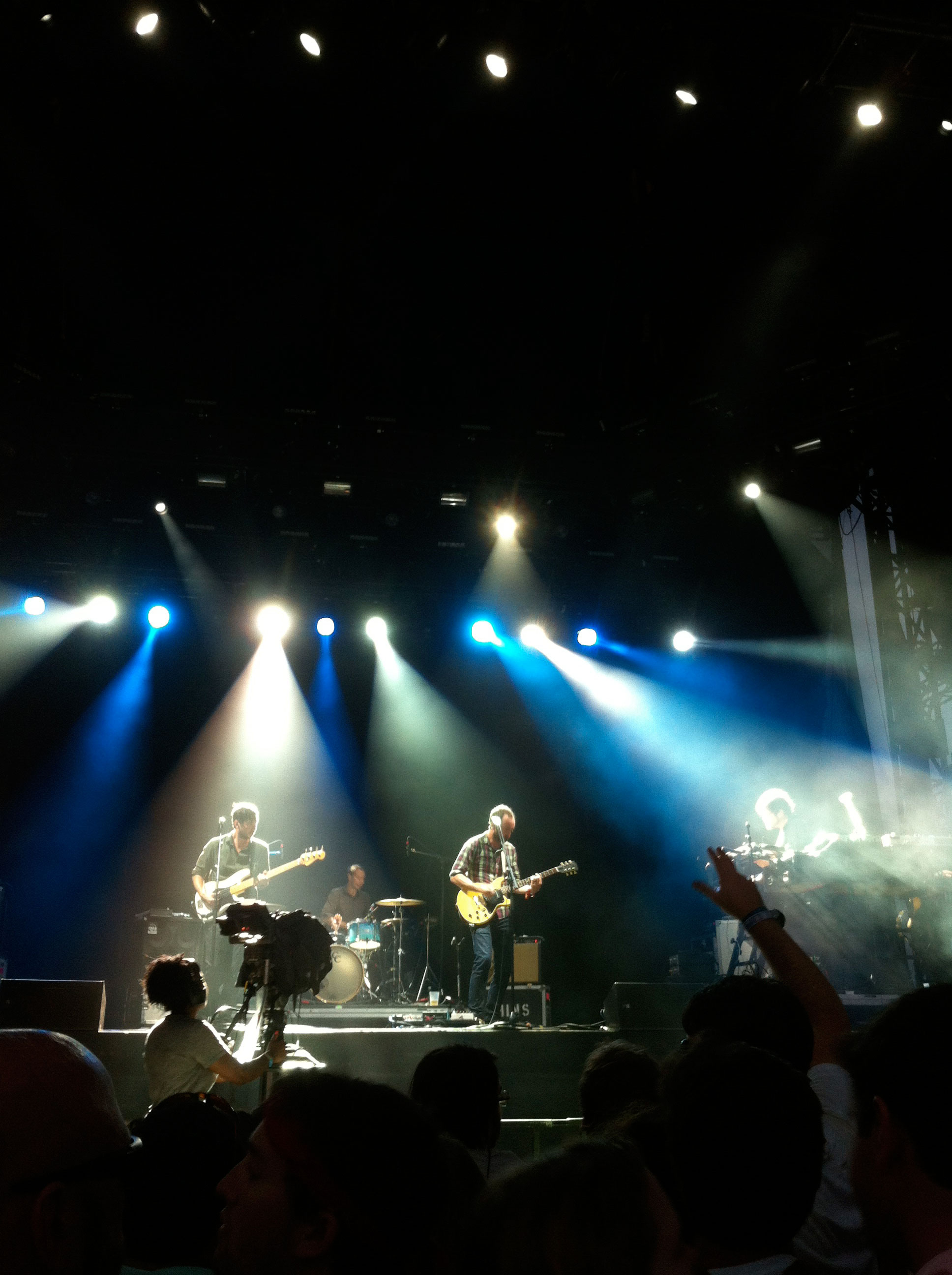 The Shins perform at the Chevrolet Stage at the 2013 Hangout Music Festival.